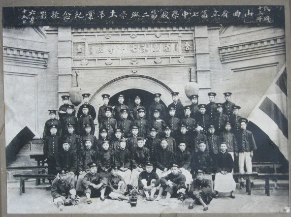 Graduation, Class 2, 7th Provincial Middle School of Shanxi, 1924